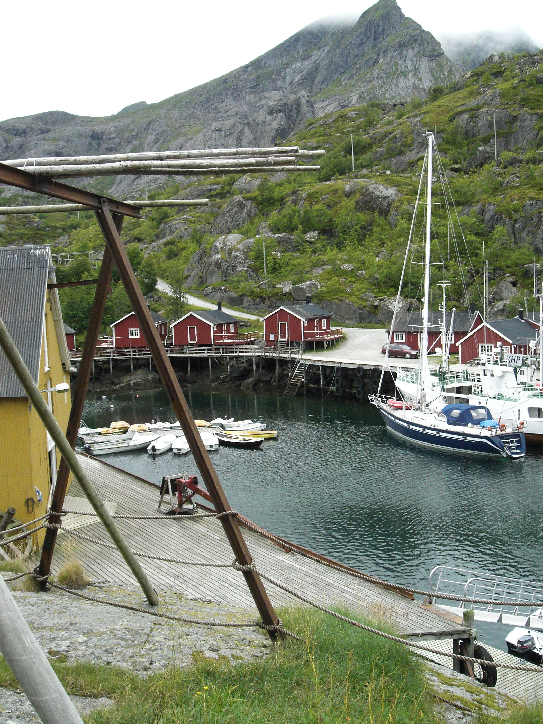 Village Nusfjord in Norway.